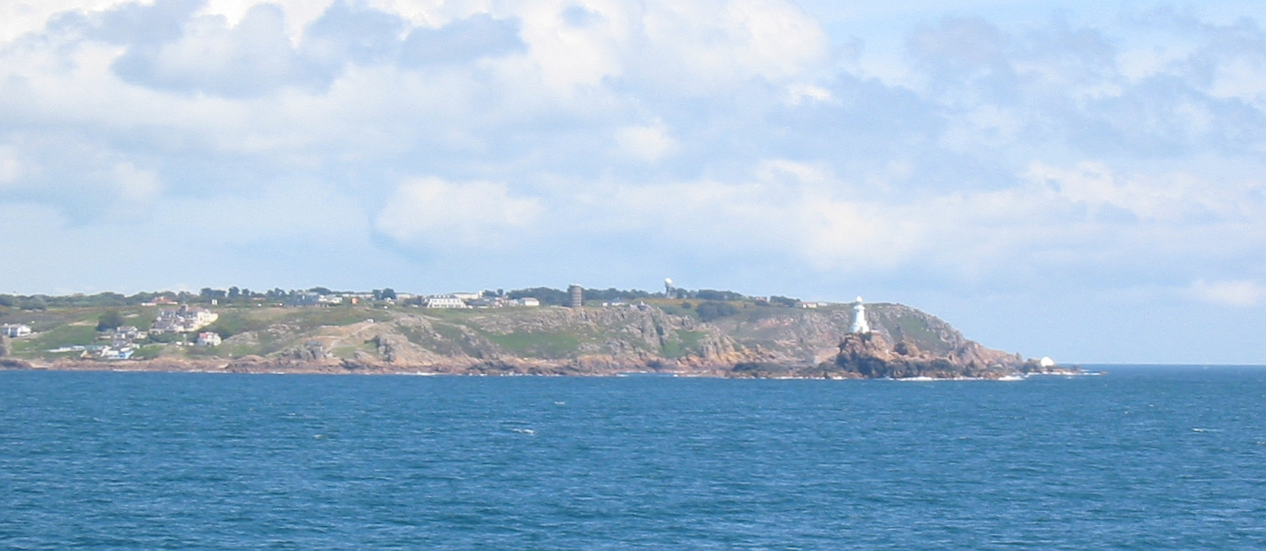 Jersey seen from the ferry